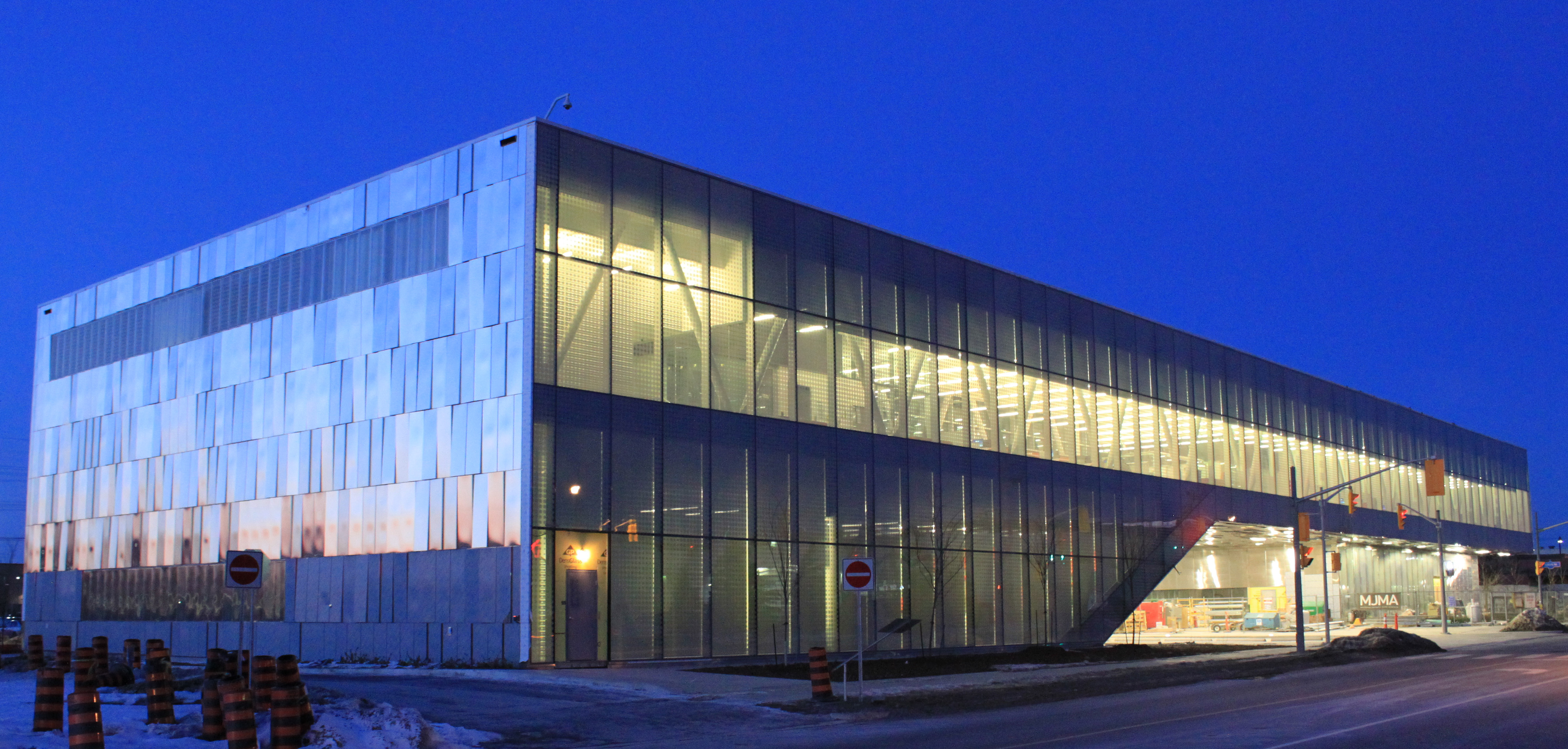 This is an evening photo of the Centennial College Ashtonbee Campus Library Building taken in 2014.